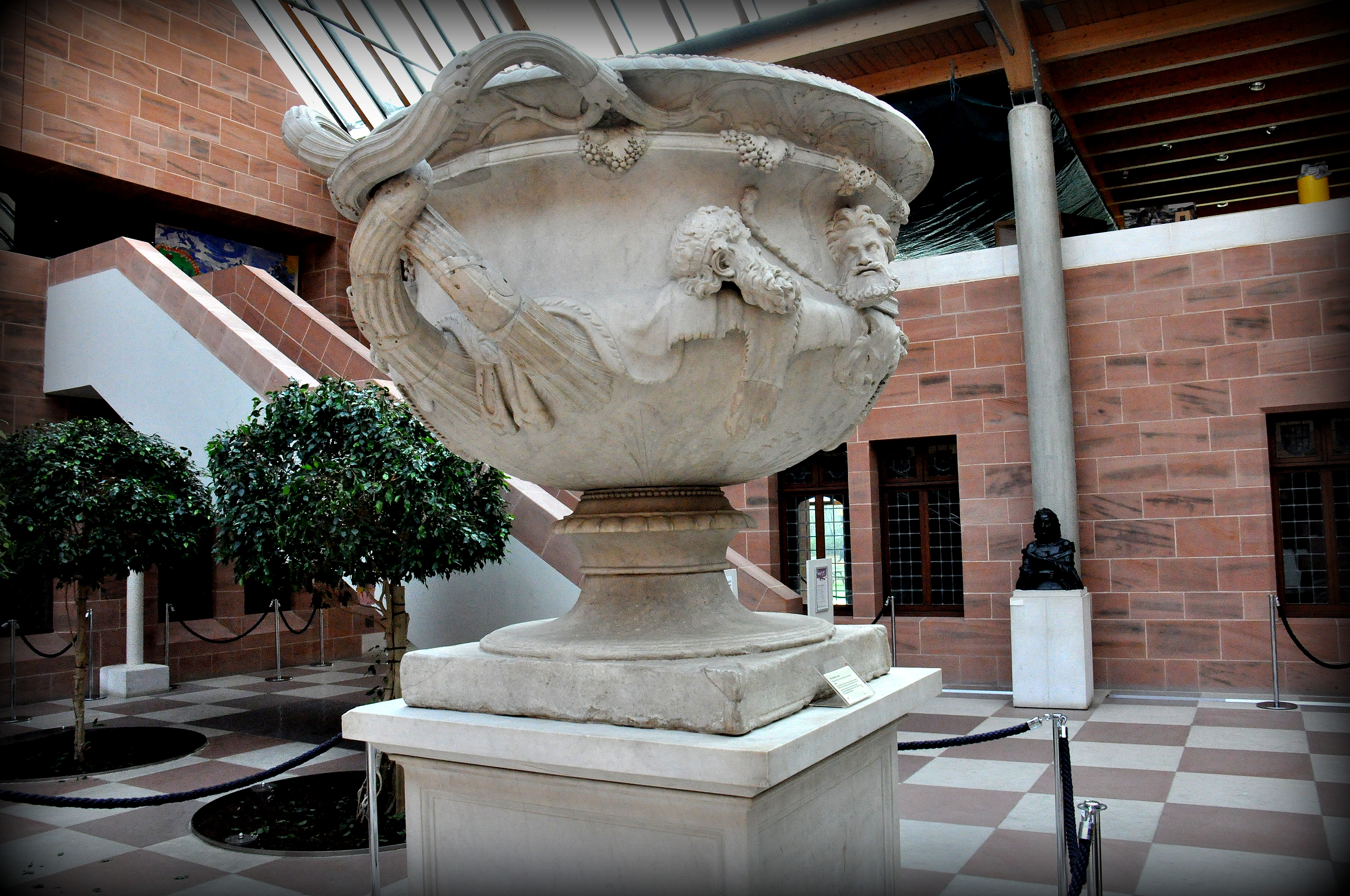 This marble vase was found at the Hadrian's Villa at Tivoli. Roman, 2nd century CE; with 18th century reconstruction. The Burrell Collection, Glasgow, Scotland, UK.